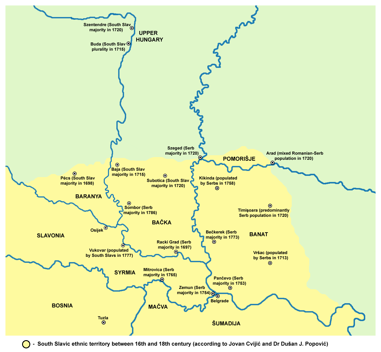 historical map of South Slavs in Vojvodina, 16th-18th century